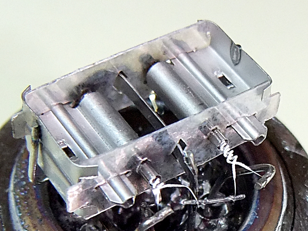 Internal structure of 6H6 double diode.